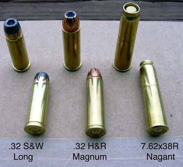 Comparison of .32 S&W Long, .32 H&R Magnum and 7.62x38R Nagant